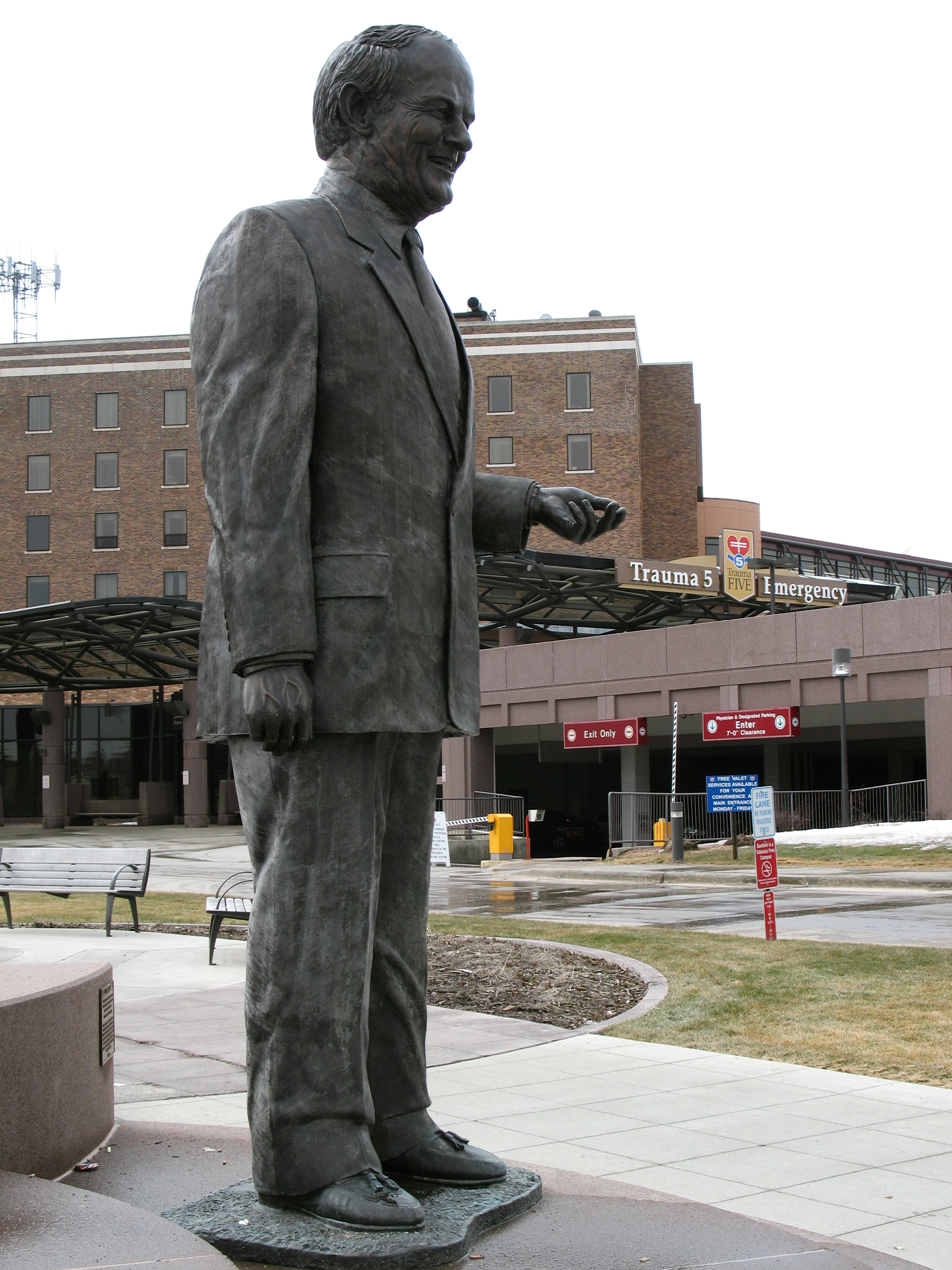 A sculpture of T. Denny Sanford in front of the Sanford Hospital.